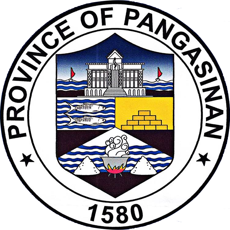 The Official Seal of the Province of Pangasinan as adopted by the Provincial Council on April 24, 2017 (Provincial Resolution No. 309-2017 entitled “Approving the Modified Design and Symbolism of the Proposed Seal of the Province as Recommended by the NHCP.”)